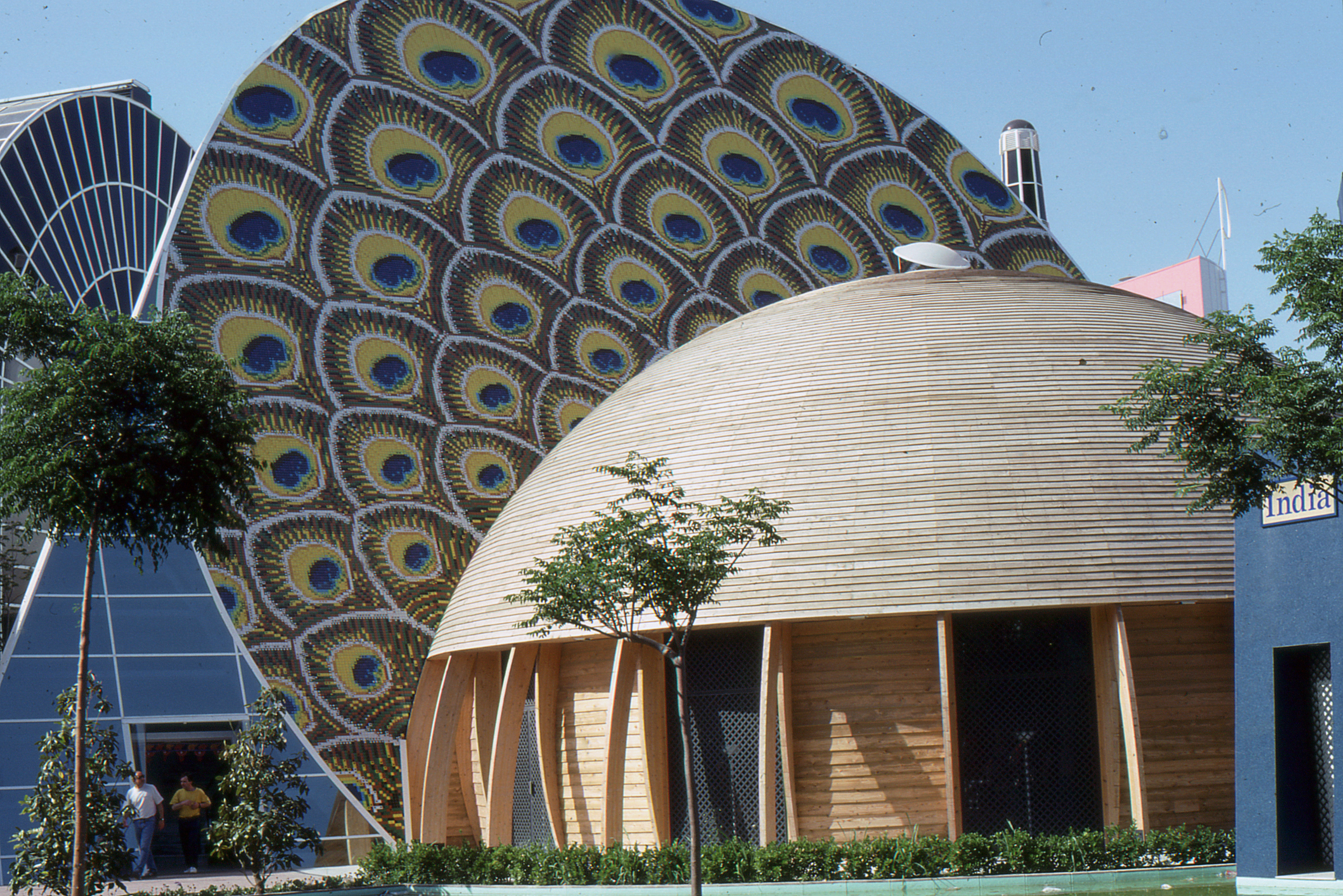 Peacock shaped pavilion, symbol of India. Olympus OM10 + Kadachrome 100 ASA